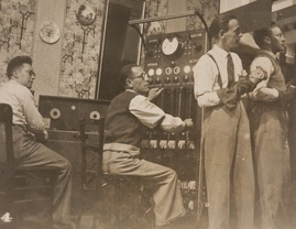 De poppenspelers van het Brugsch poppenspel Den Uyl in actie.